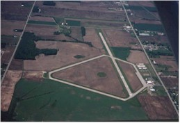 St. Thomas Municipal Airport (Ontario). original text: "St. Thomas airport"